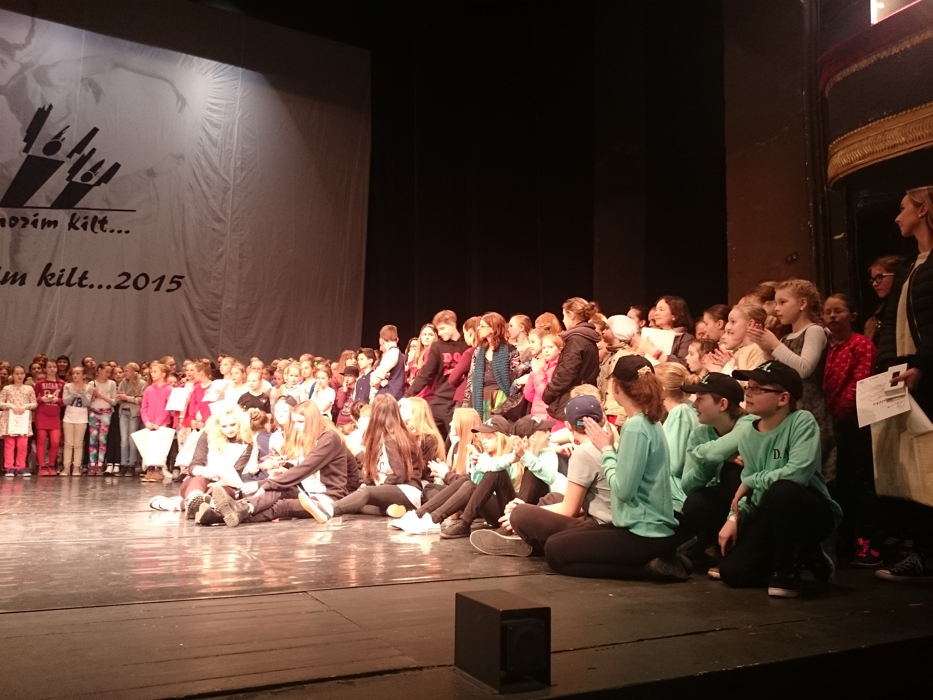 Norim kilt